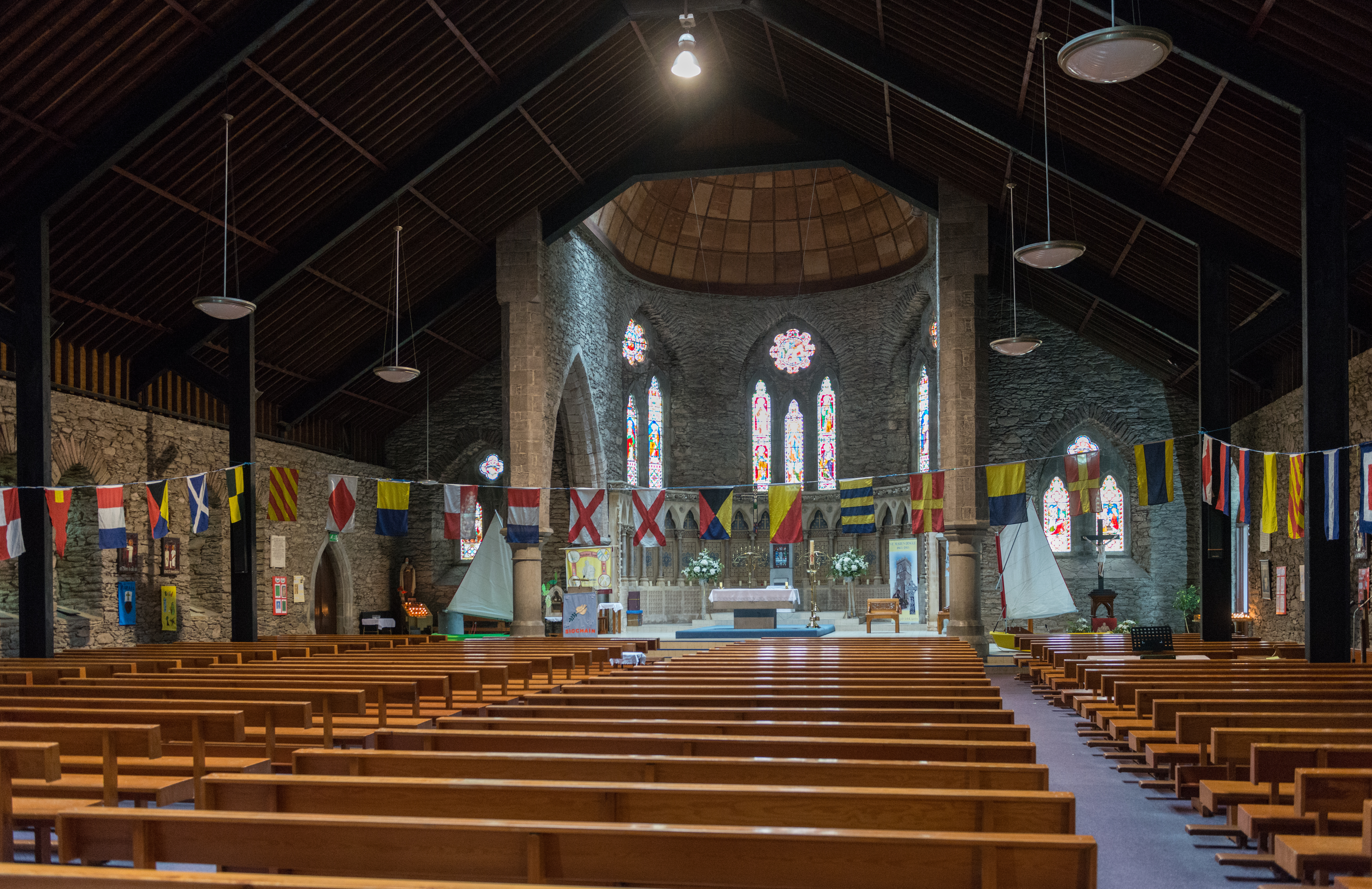 An interior view of St. Mary's Church, Dingle